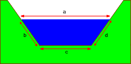 Simple explanation about the wet perimeter in hydraulics.